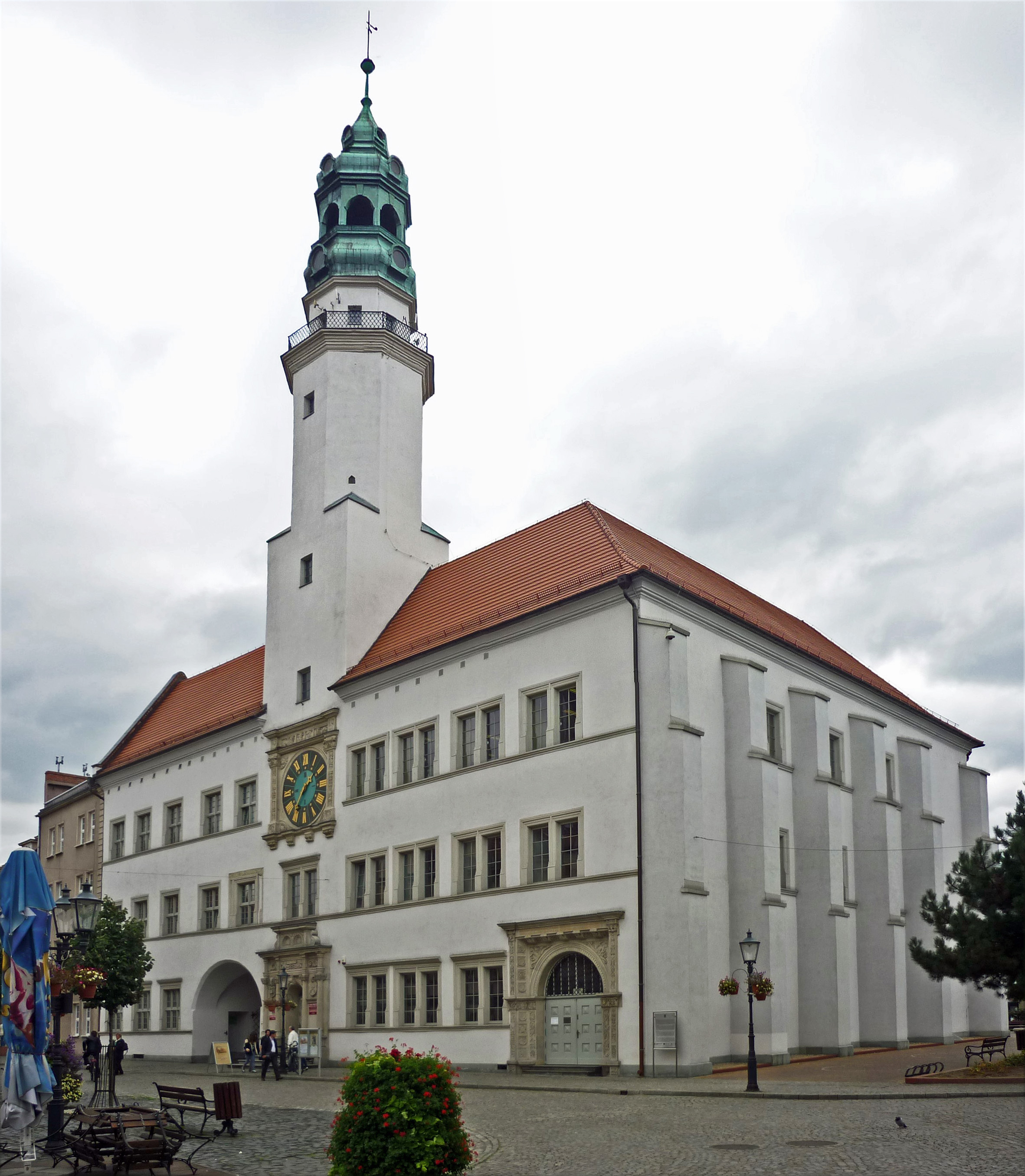 Town hall in Lubań, Poland